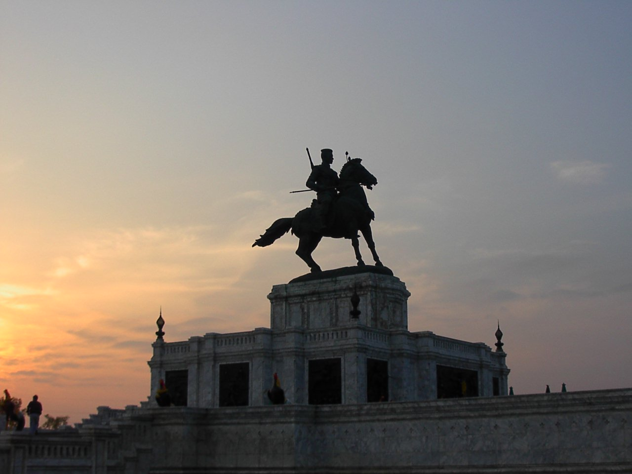 King Naresuan statue, Ayuthaya